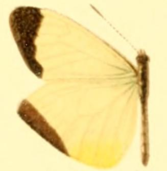 Plate from The Macrolepidoptera of the World. Vol. 5: Enantia limnorina